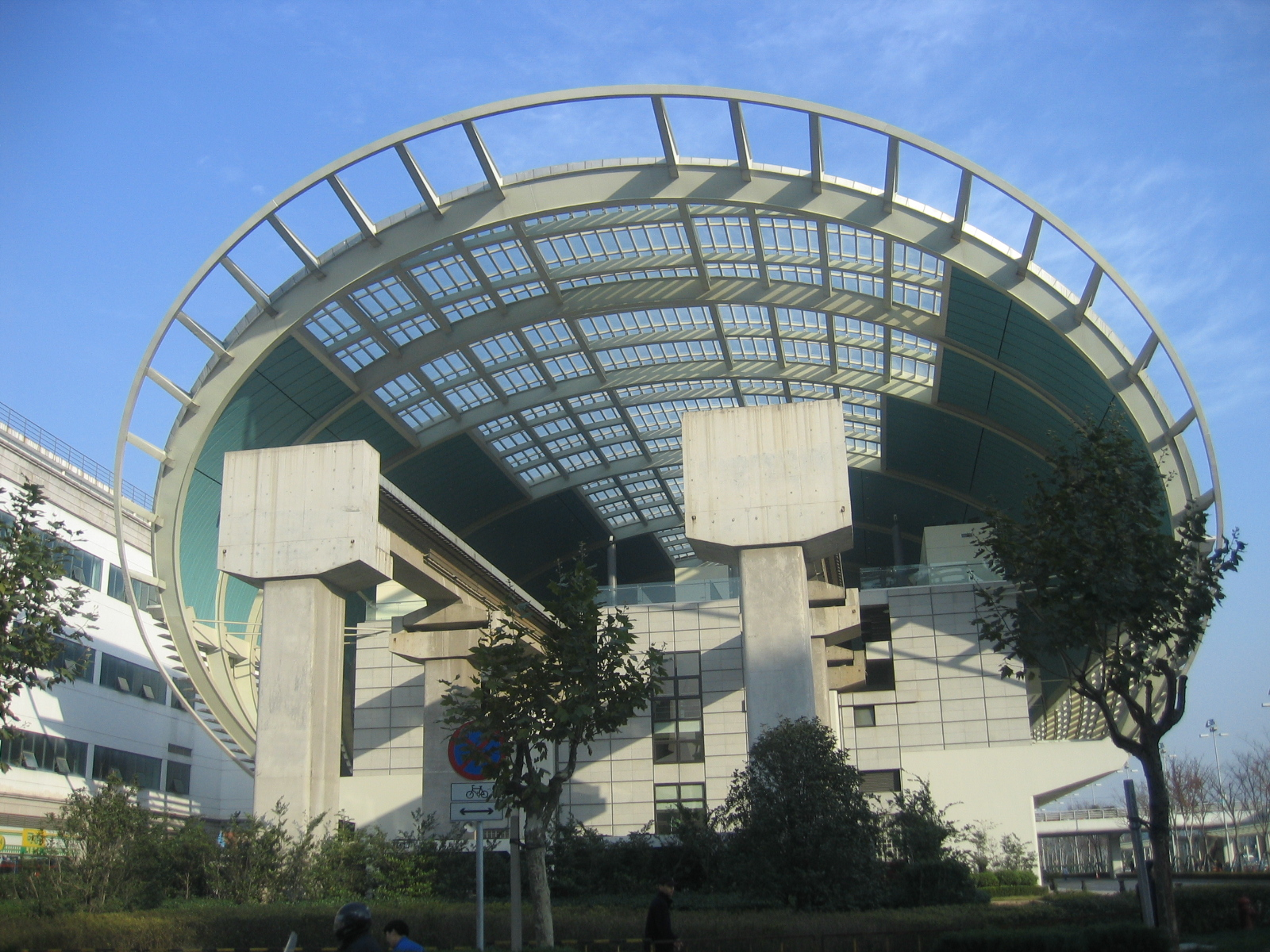 Longyang Road maglev station in Shanghai, China.